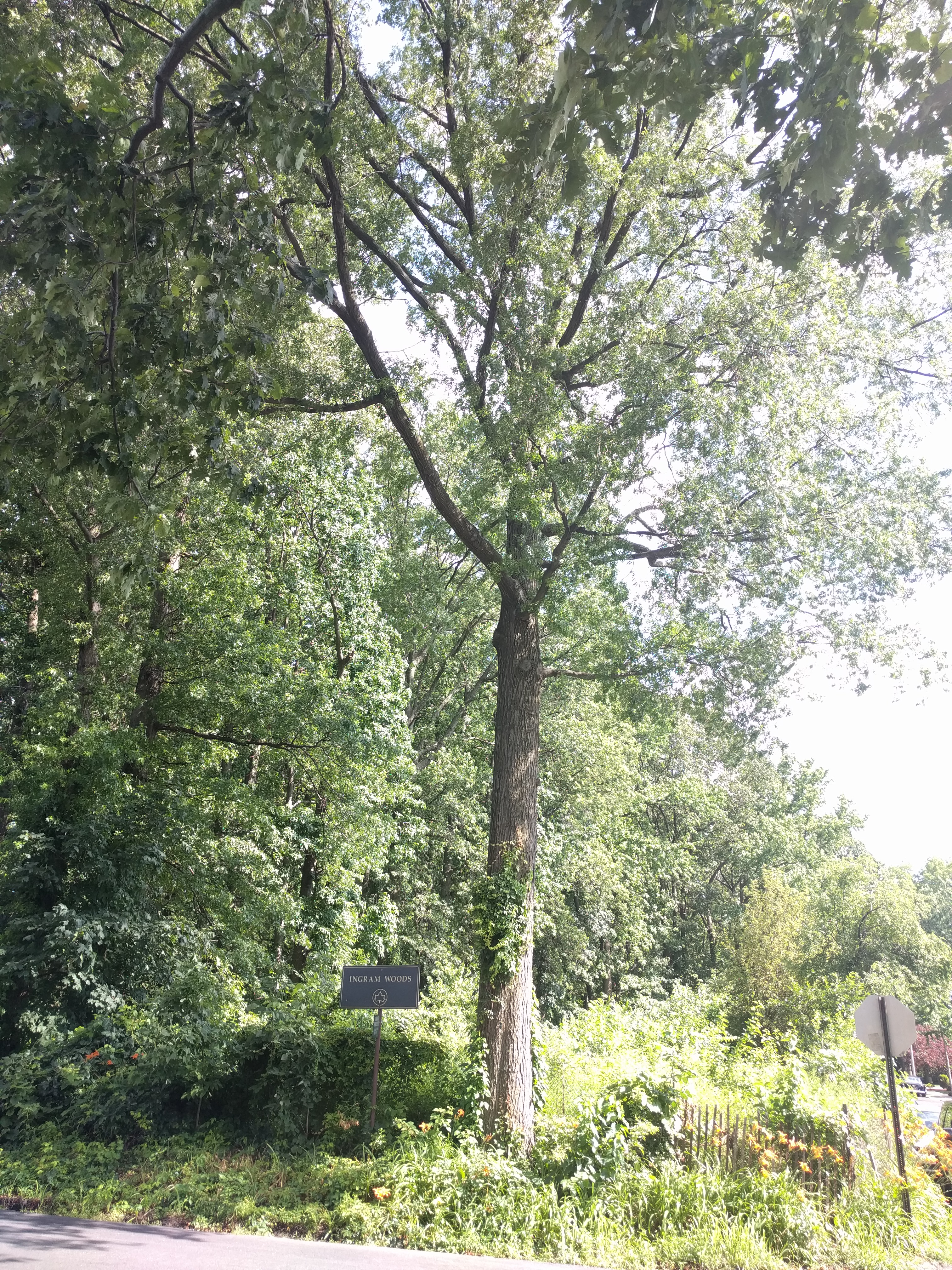 looking South across Purdy on a sunny afternoon